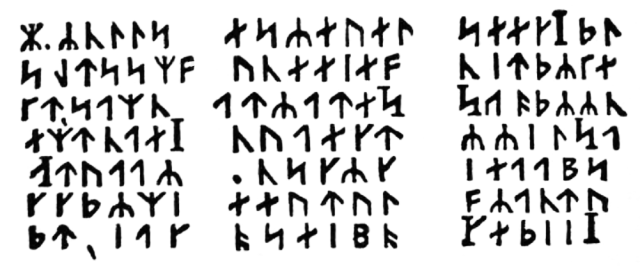 This is a reproduction of a Runic cryptogram appearing in Chapter II of Journey to the Center of the Earth by Jules Verne.